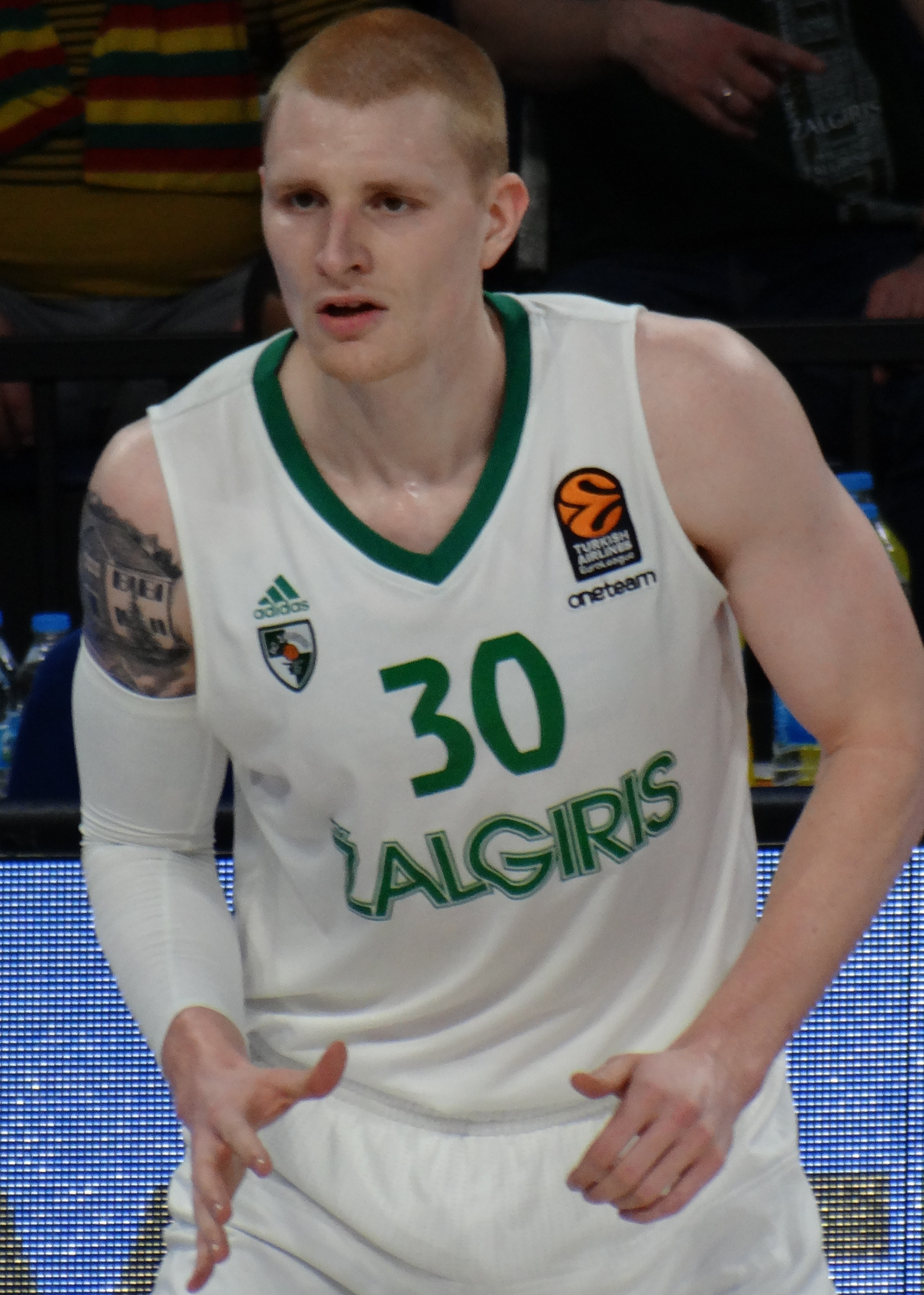 Aaron White (basketball) 30 BC Žalgiris EuroLeague 20180223